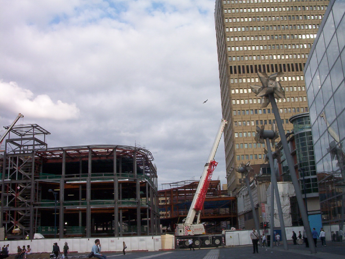 Arndale North and Arndale Tower, looking from Exchange Square with Selfridges and some giant steel beach "windmills" on the right.